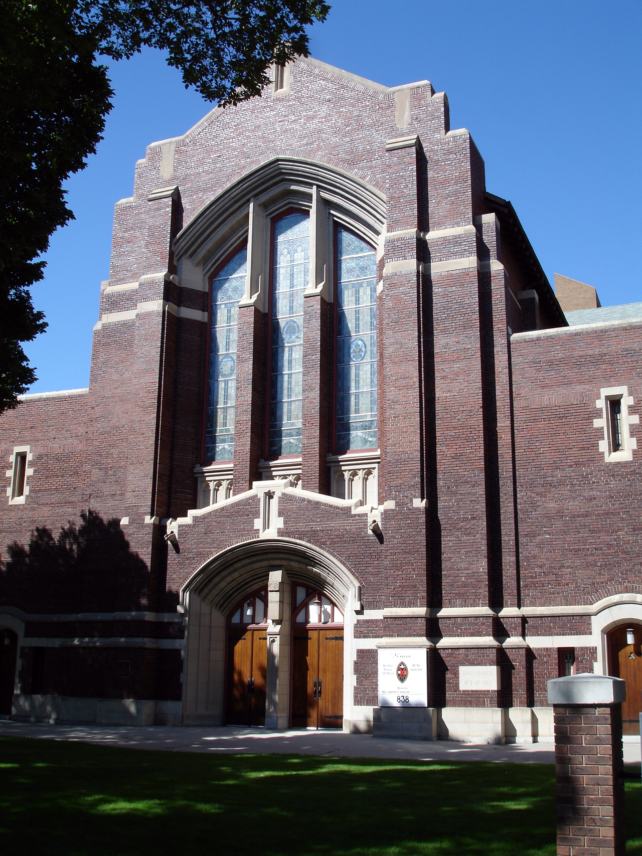 Knox United Church (originally Knox Presbyterian Church) on Spadina Crescent in downtown Saskatoon, Saskatchewan, Canada.